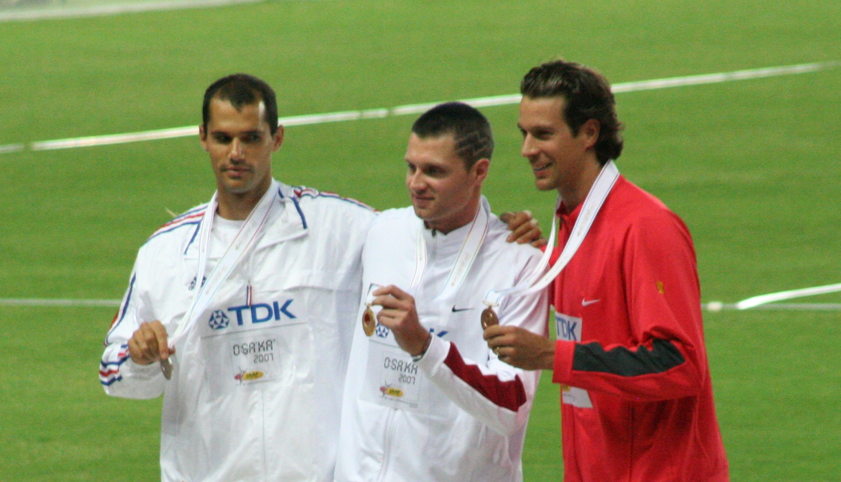 World Athletics Championships 2007 in Osaka - Victory ceremony for the men's Pole Vault: Romain Mesnil, Brad Walker, Danny Ecker